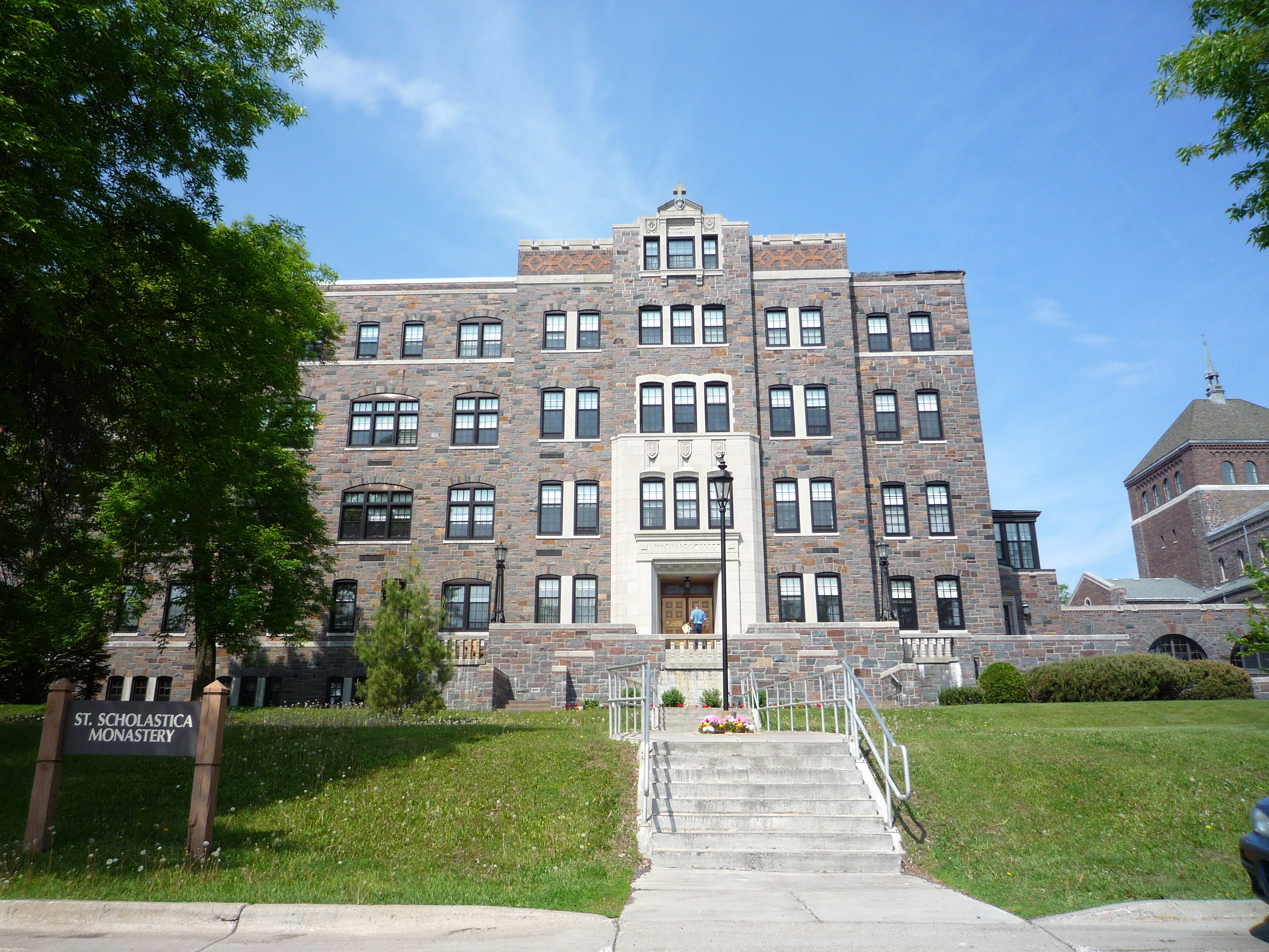 St. Scholastica Monastery, home of the Benedictine Sisters, The College of St. Scholastica, Duluth, Minnesota, USA.